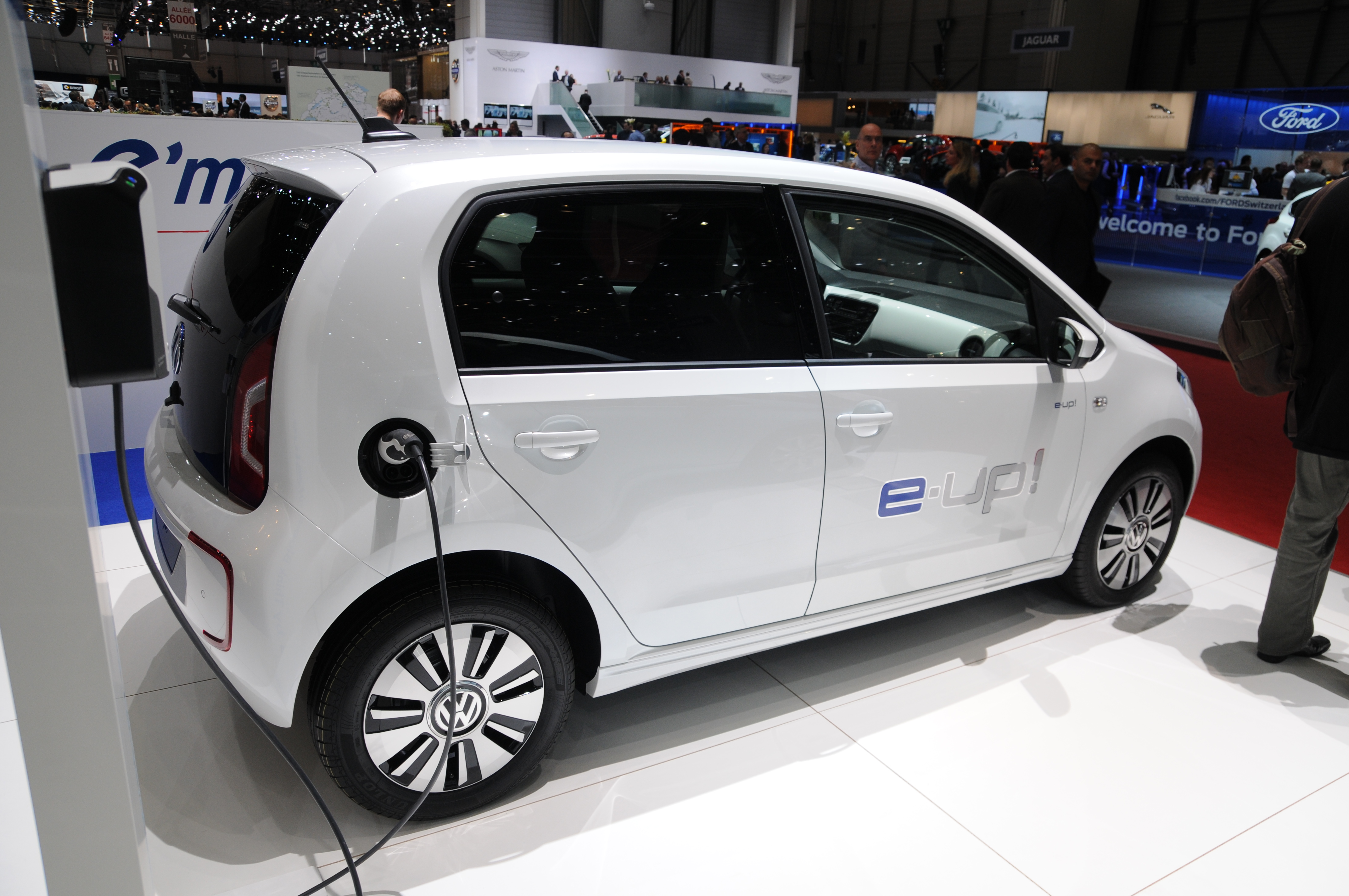 Volkswagen e-up! all-electric car at Geneva Motor Show 2014 (photo taken on the first press day)